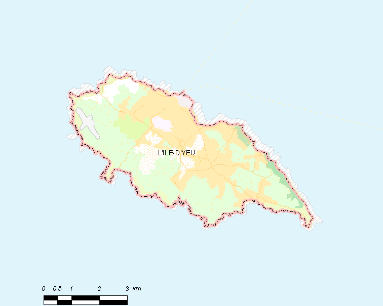 Map of French municipality L'Île-d'Yeu